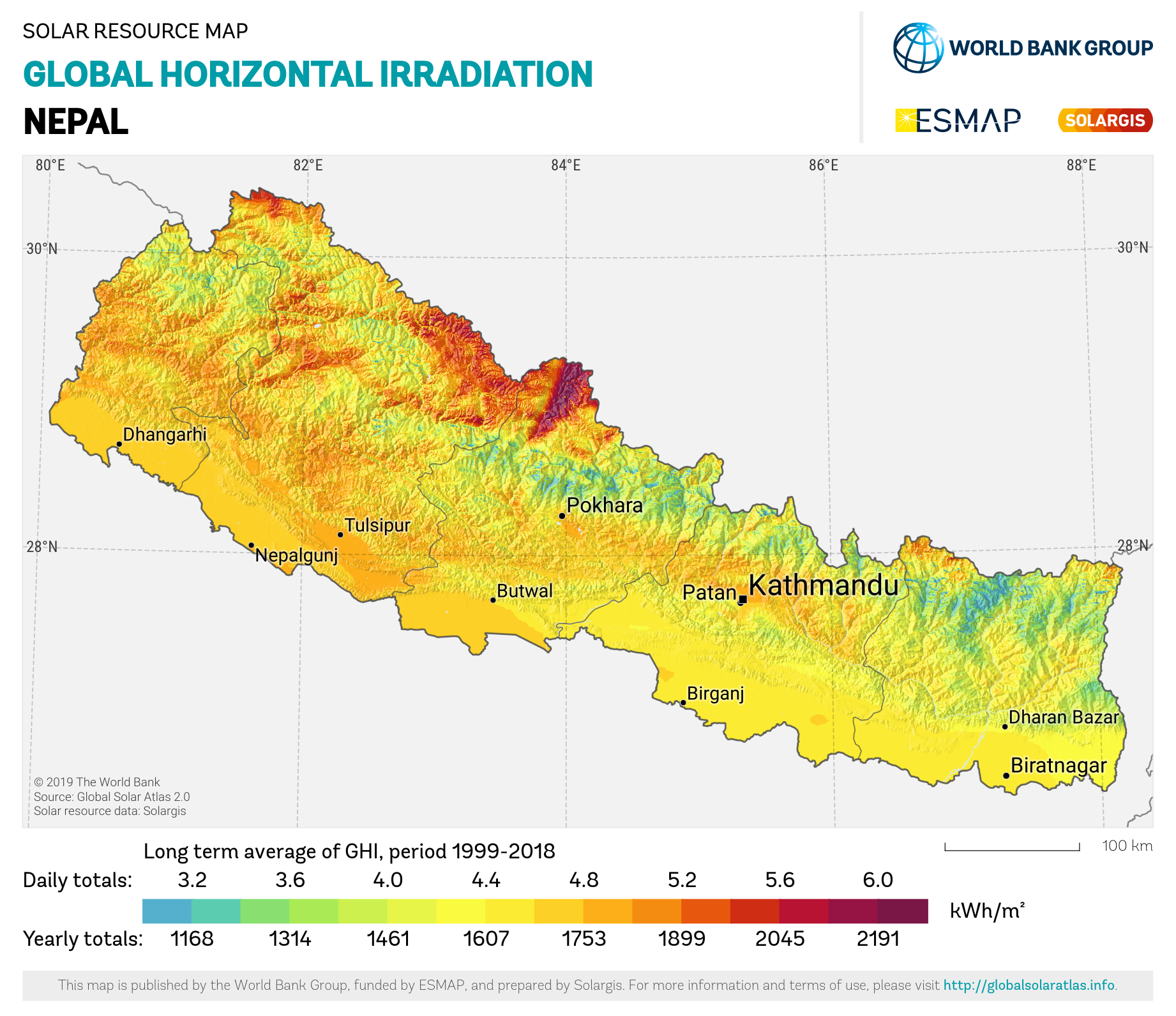 Global Horizontal Irradiation of Nepal